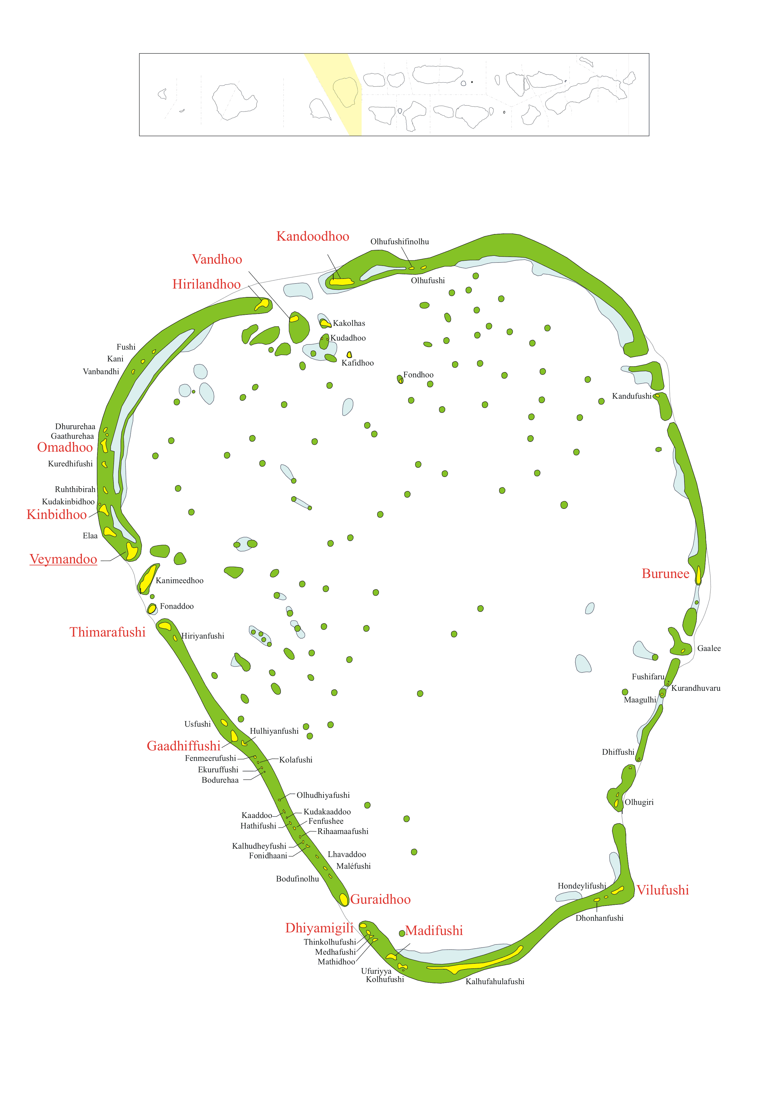 Map of Thaa_Atoll Note: This section of map was extracted and its text was romanized by Oblivious. Special assitance by Waddey and Zuru Converted to PNG by helix84 source: Image:Thaa_Atoll.jpg